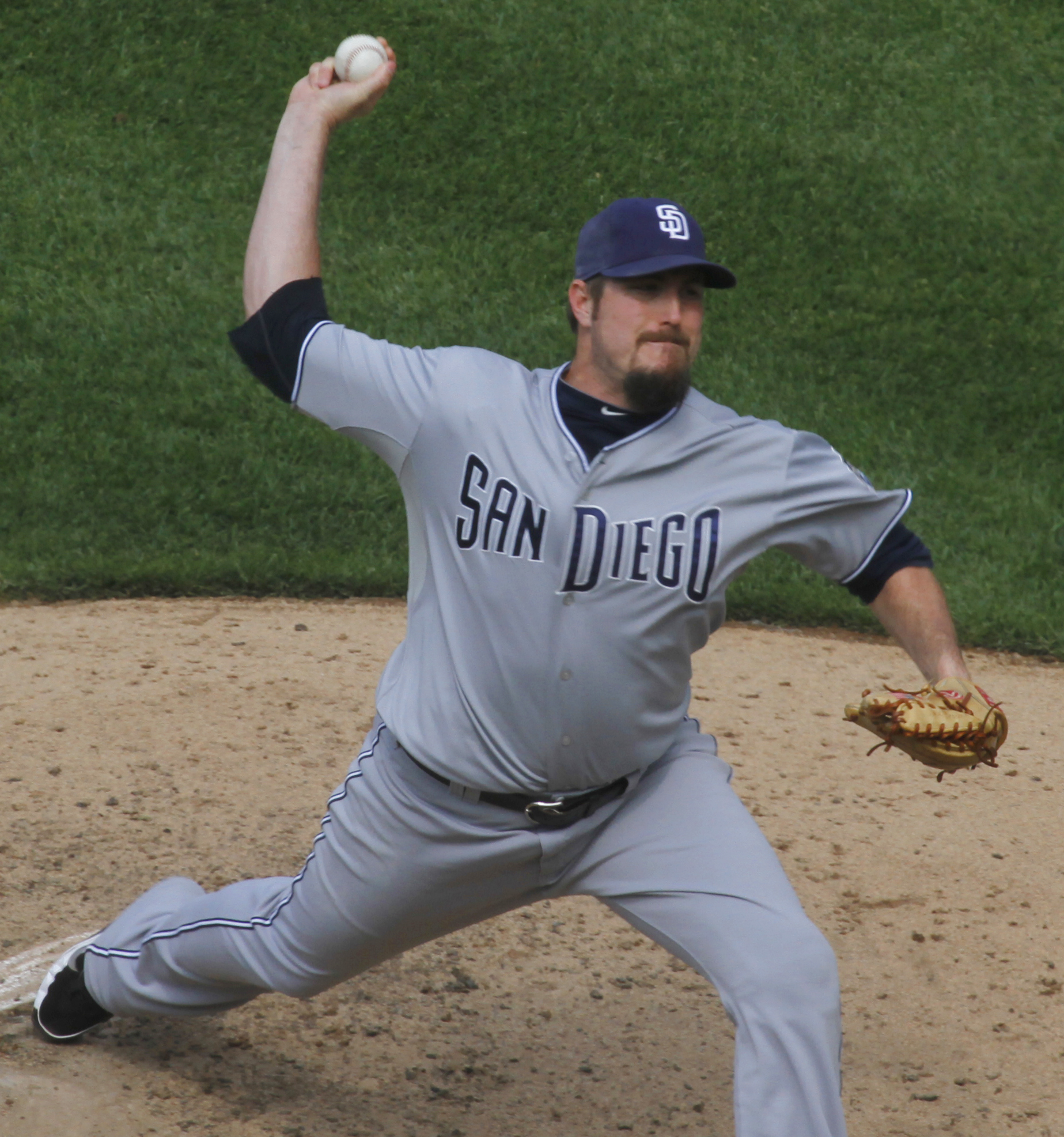 Chad Qualls